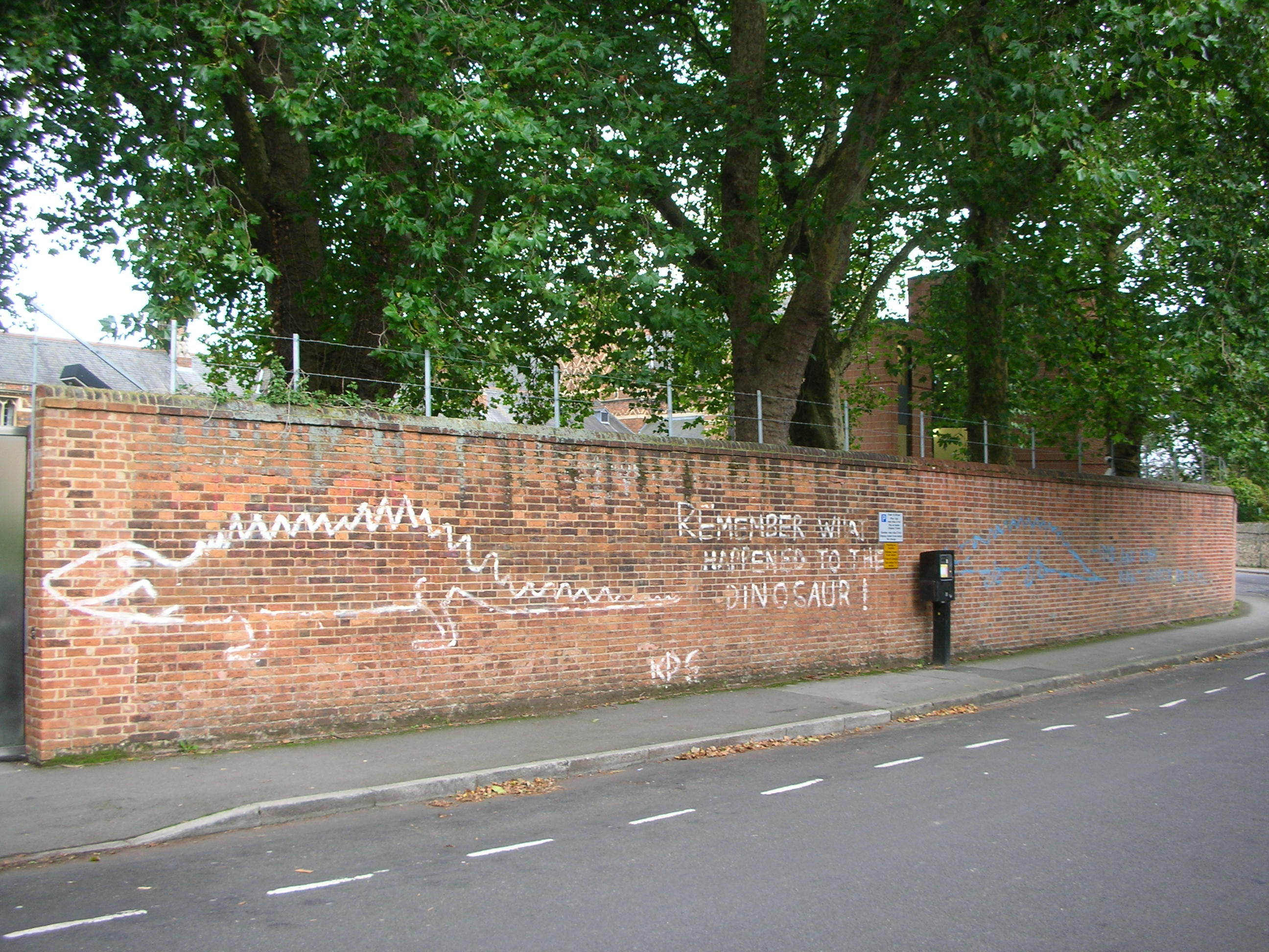 Photograph of dinosaur graffiti in Blackhall Road, Oxford, England by Jonathan Bowen.